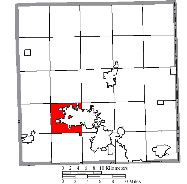 Map of the municipal and township boundaries of Trumbull County, Ohio, United States, as of the 2000 census, with the location of Warren Township highlighted. Township borders are shown only in unincorporated areas in order to differentiate incorporated and unincorporated areas more clearly.